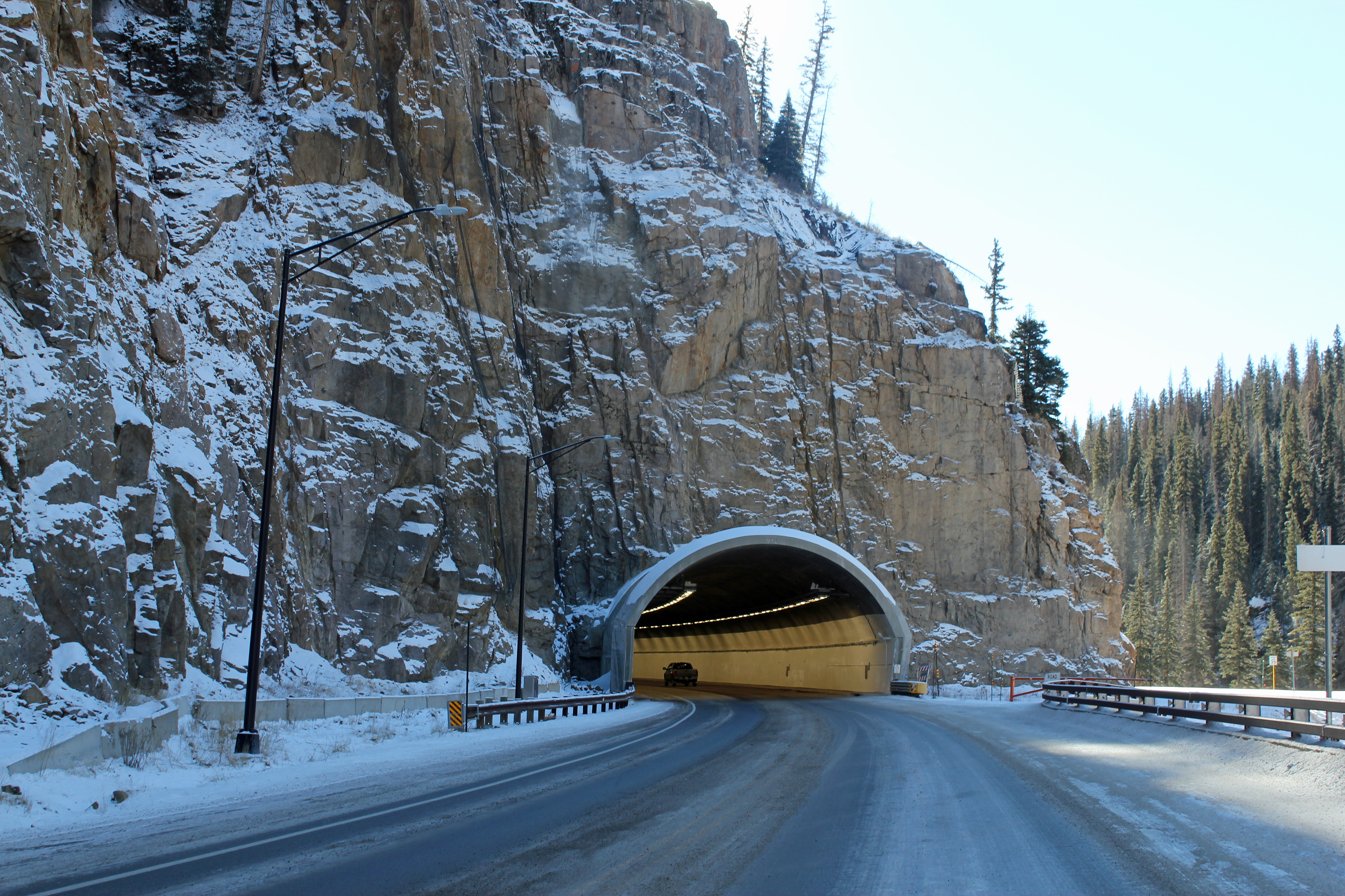 The Wolf Creek Pass Tunnel, located on U.S. Route 160 on Wolf Creek Pass in Mineral County, Colorado. The tunnel opened in 2005.